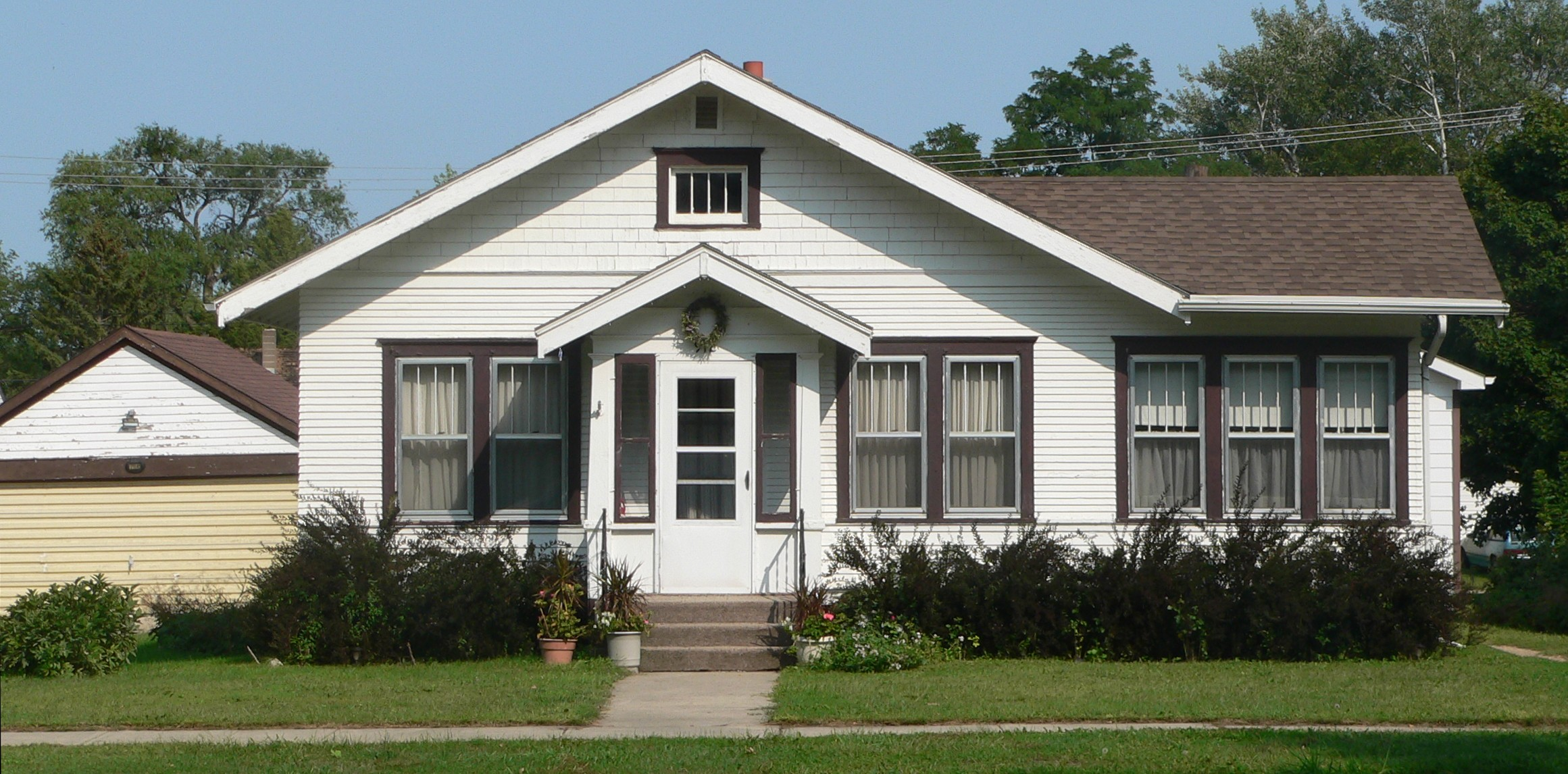 House at 912 Main Street in Armour, South Dakota; seen from the west. The house is a contributing property in the Armour Historic District, listed in the National Register of Historic Places.